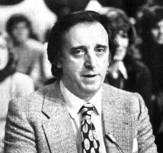 Italian actor Felice Andreasi